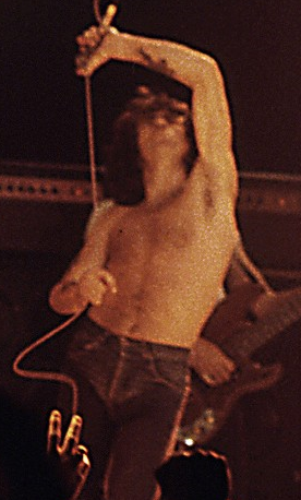 Bon Scott at Ulster Hall (Belfast, Northern Ireland).